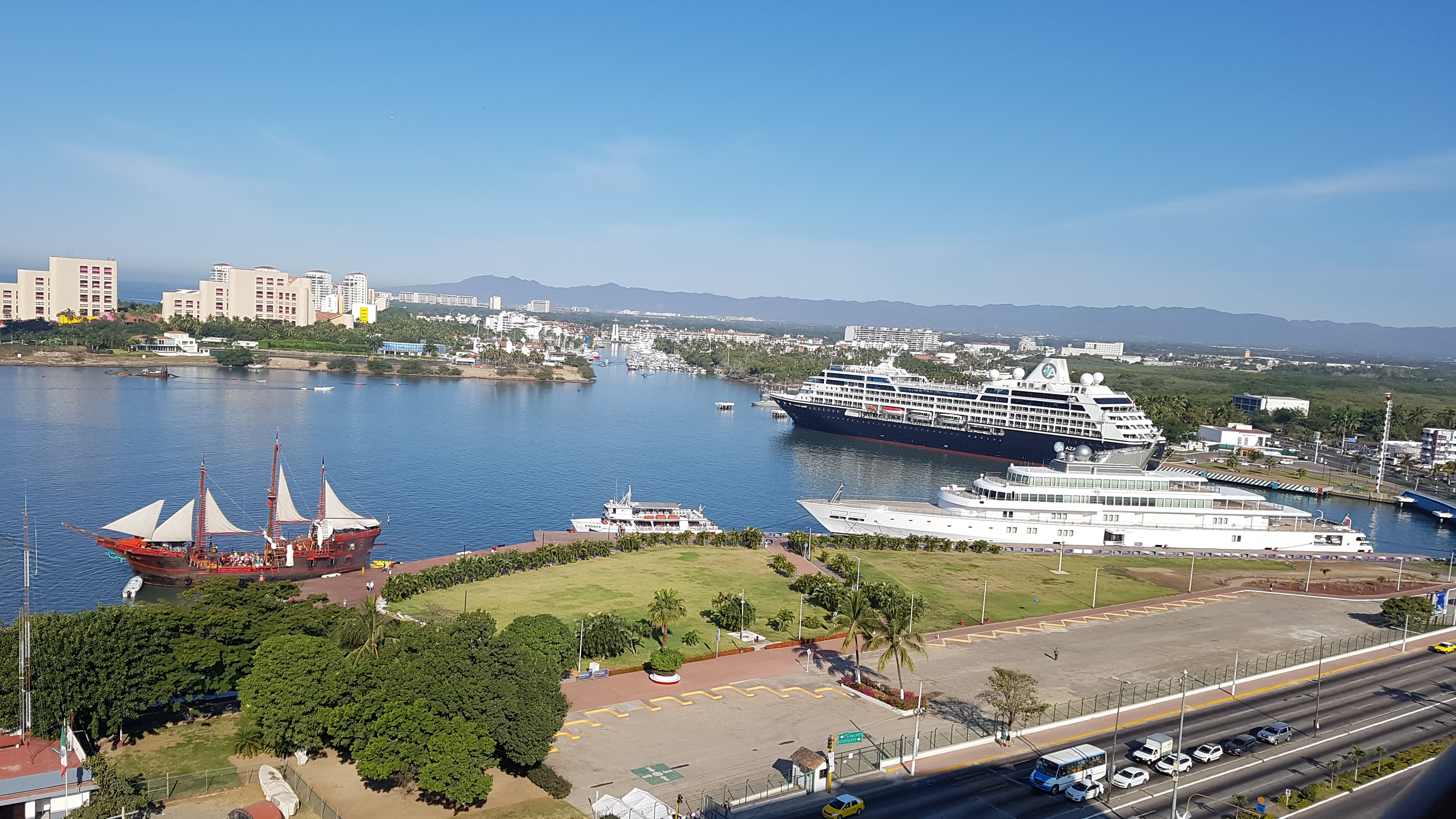 Picture of several ships docked in Puerto Vallarta, Mexico, on February 4th, 2017.